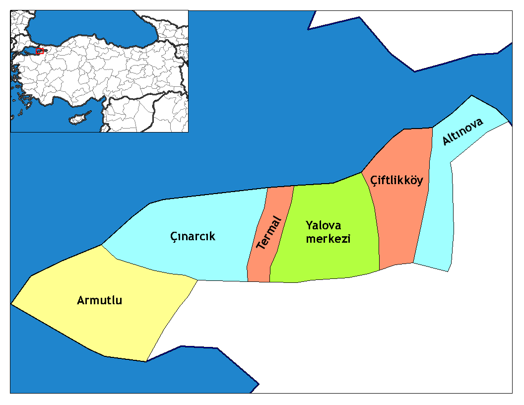 Map of the districts of Yalova province in Turkey. Created by Rarelibra 17:53, 4 December 2006 (UTC) for public domain use, using MapInfo Professional v8.5 and various mapping resources. Edited by One Homo Sapiens Corrected text where İ,Ş,ı,ğ,or ş occurs in name. Source: [statoids-com]. Increased font size and enhanced color differences among adjacent districts.